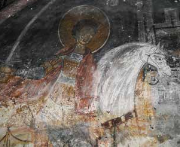 Saint George, Kërçisht e Sipërmë, Church of the Ascension, blind arch on the northern wall I half of the XVI Century